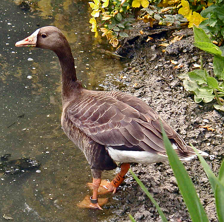 White-fronted Goose Anser albifrons at Slimbridge Wildfowl and Wetlands Centre, Gloucestershire, England.